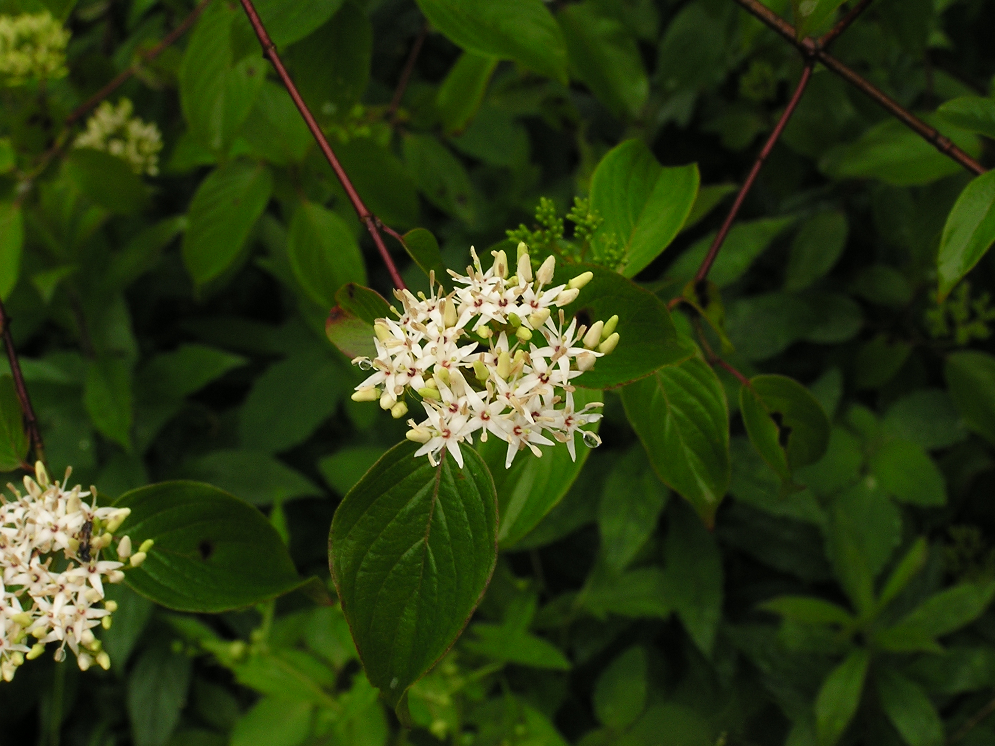 Flowers of Cornus amomum